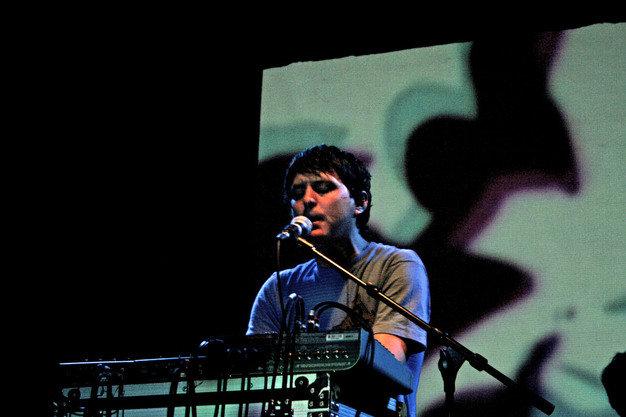 Panda Bear at the Bowery Ballroom, New York, 2007